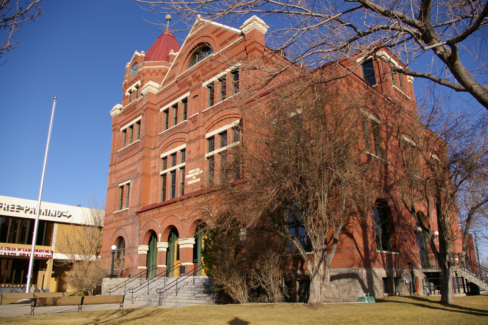 The Paul Laxalt Building, now a state office building, originally built to serve as the Carson City Post Office.